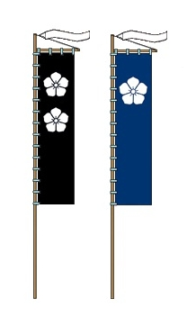 Standard of Yamagata Masakage: The white chinese bellflower on black is found on a folding screen depicting the Battle of Nagashino; The white chinese bellflower on dark blue is found on a folding screen depicting the Battle of Kawanakajima (Iwakuni History Museum Collection).